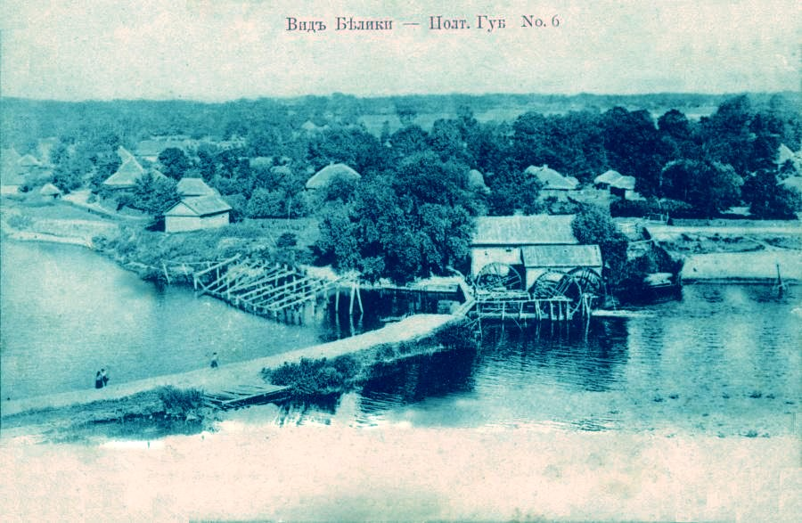 The river Vorskla. Mills near the village Bilyky